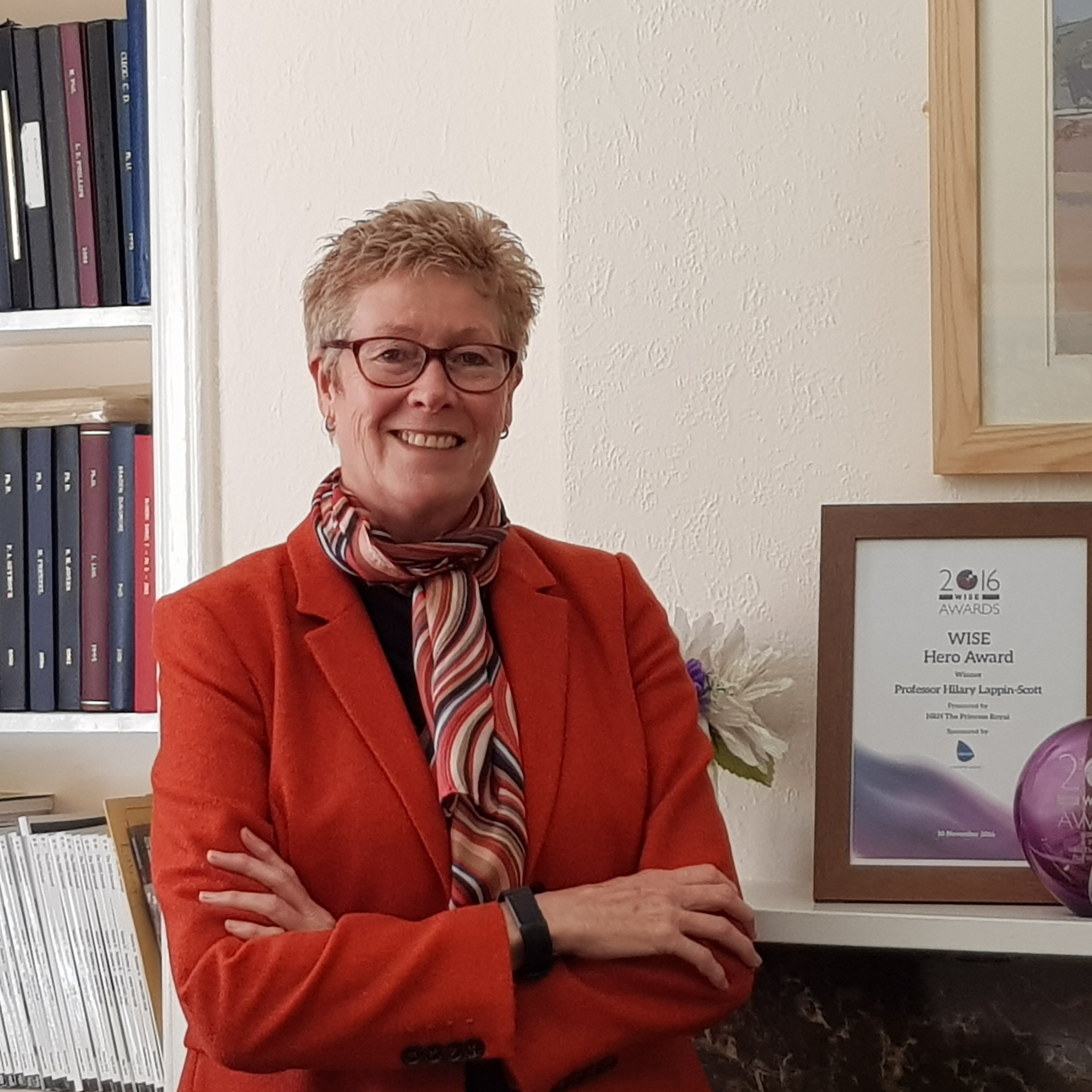 Picture of Hilary Lappin-Scott in her office